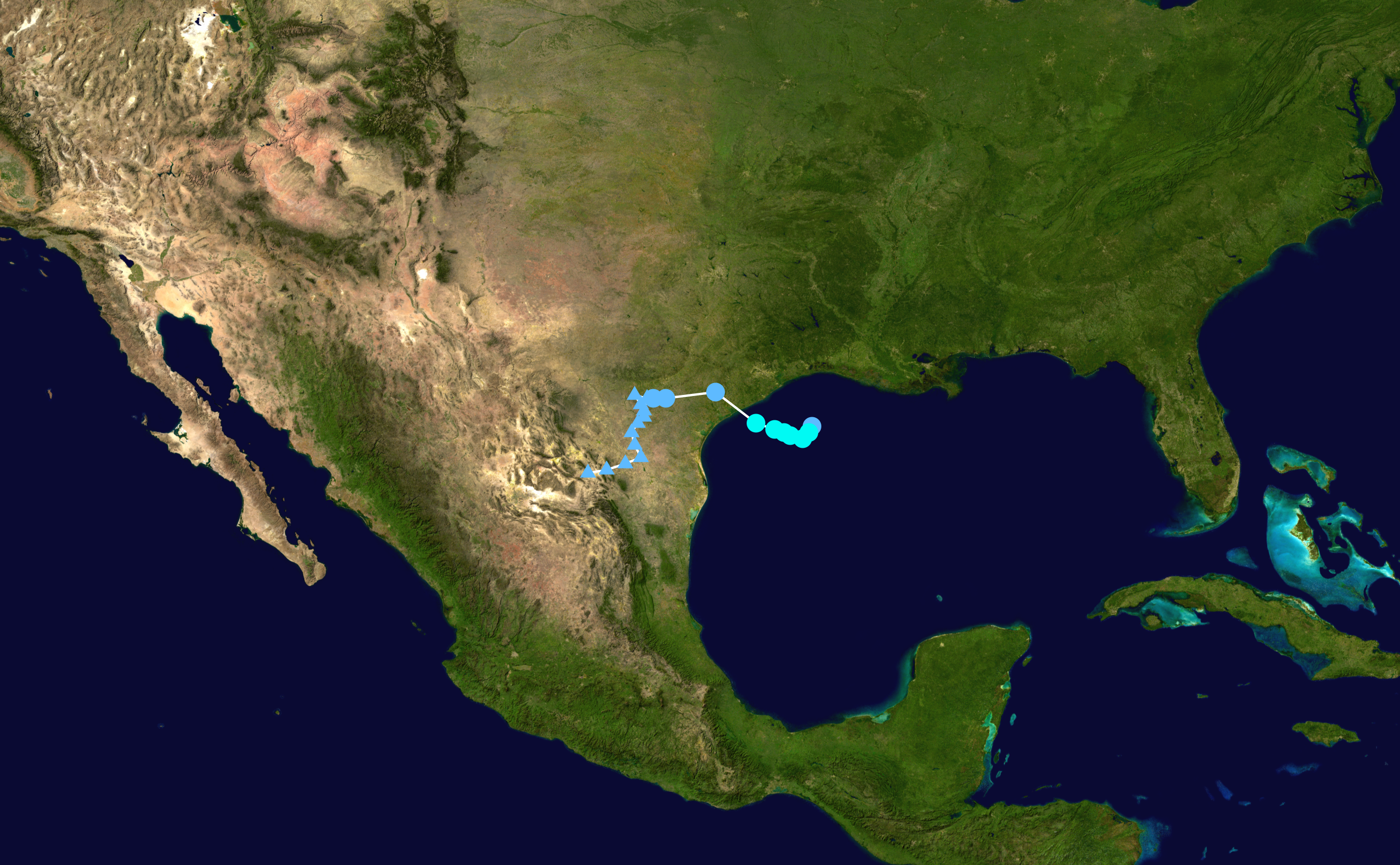 Track map of Tropical Storm Fay of the 2002 Atlantic hurricane season. The points show the location of the storm at 6-hour intervals. The colour represents the storm's maximum sustained wind speeds as classified in the Saffir–Simpson scale (see below), and the shape of the data points represent the nature of the storm, according to the legend below. Saffir–Simpson scale Tropical depression≤38 mph≤62 km/h Category 3111–129 mph178–208 km/h Tropical storm39–73 mph63–118 km/h Category 4130–156 mph209–251 km/h Category 174–95 mph119–153 km/h Category 5≥157 mph≥252 km/h Category 296–110 mph154–177 km/h Unknown Storm type Tropical cyclone Subtropical cyclone Extratropical cyclone / Remnant low / Tropical disturbance / Monsoon depression